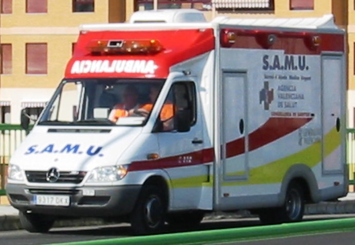 MICU of Spanish SAMU